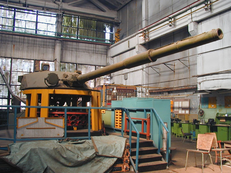 2S25 Sprut turret.